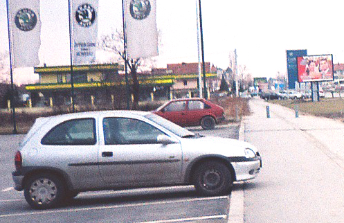 Image of Veternik near Novi Sad (self made)